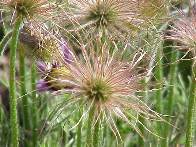 Species: Pulsatilla vulgaris Family: Ranunculaceae Image No. 1